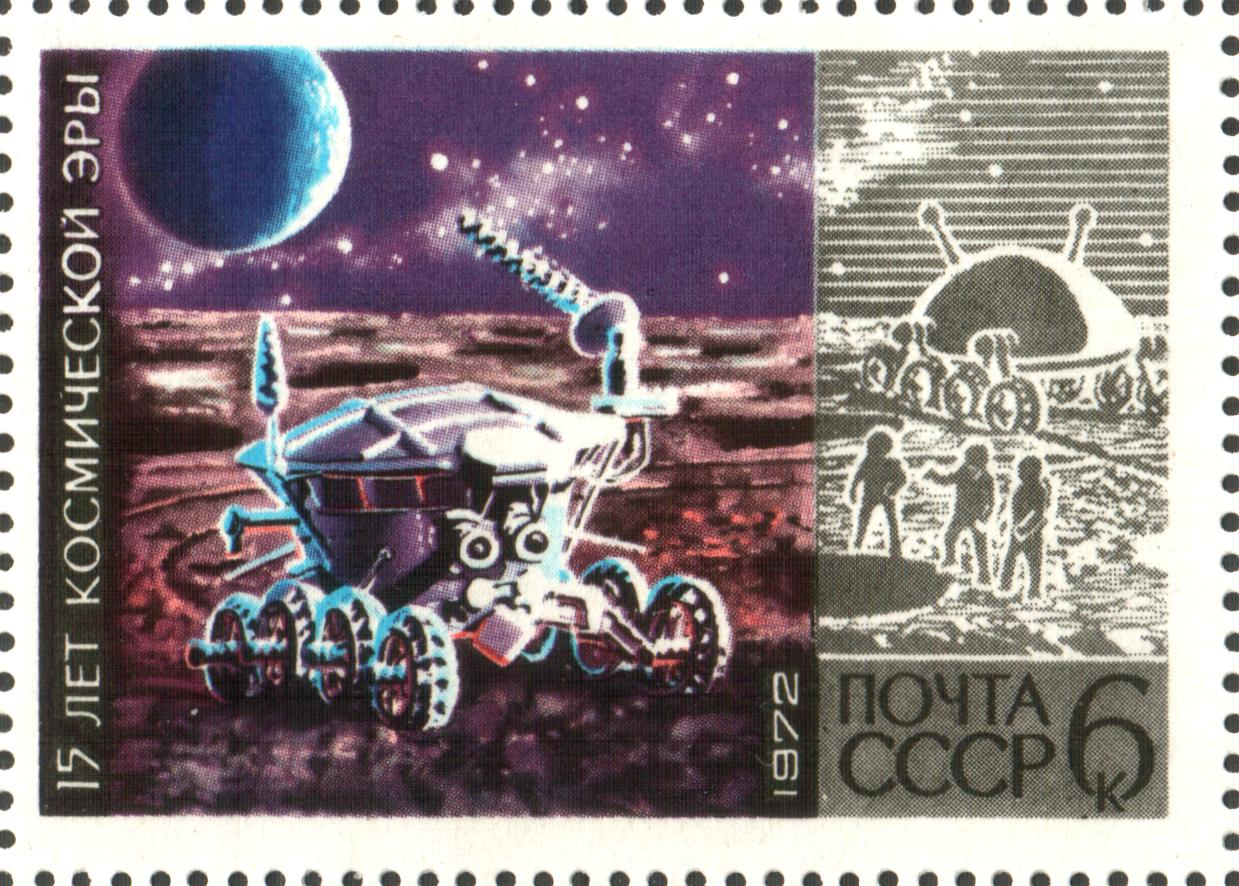 USSR stamp